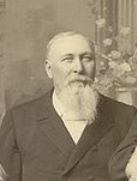 Photograph of John Henry Smith, a member of the Quorum of the Twelve Apostles of The Church of Jesus Christ of Latter-day Saints (LDS Church).